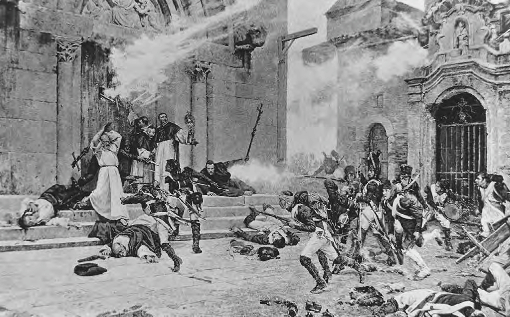 Amid bitter street fighting in which quarter was neither given nor received, French infantry assault the grim defenders of a church during the siege of Saragossa.